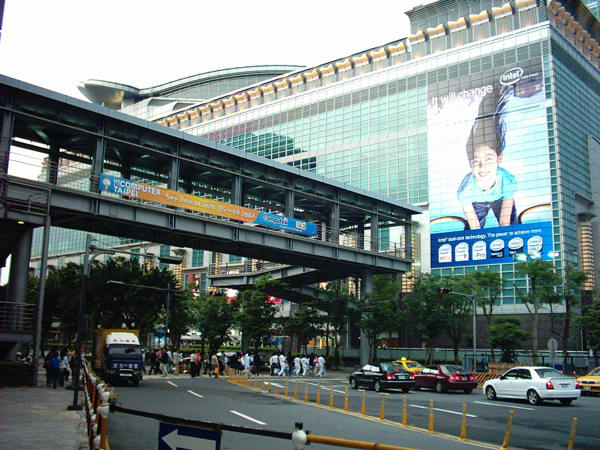 2006 Computex Taipei: An overpass connected between Taipei World Trade Center Exhibition Hall 1 and Taipei 101 Mall.